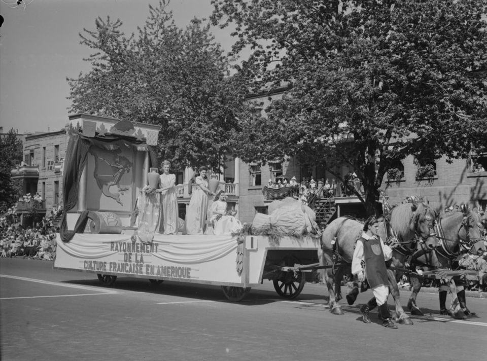 We see a float of the parade of Saint-Jean-Baptiste in Montreal. This chariot drawn by two horses, shows the influence of French culture in America on a map.